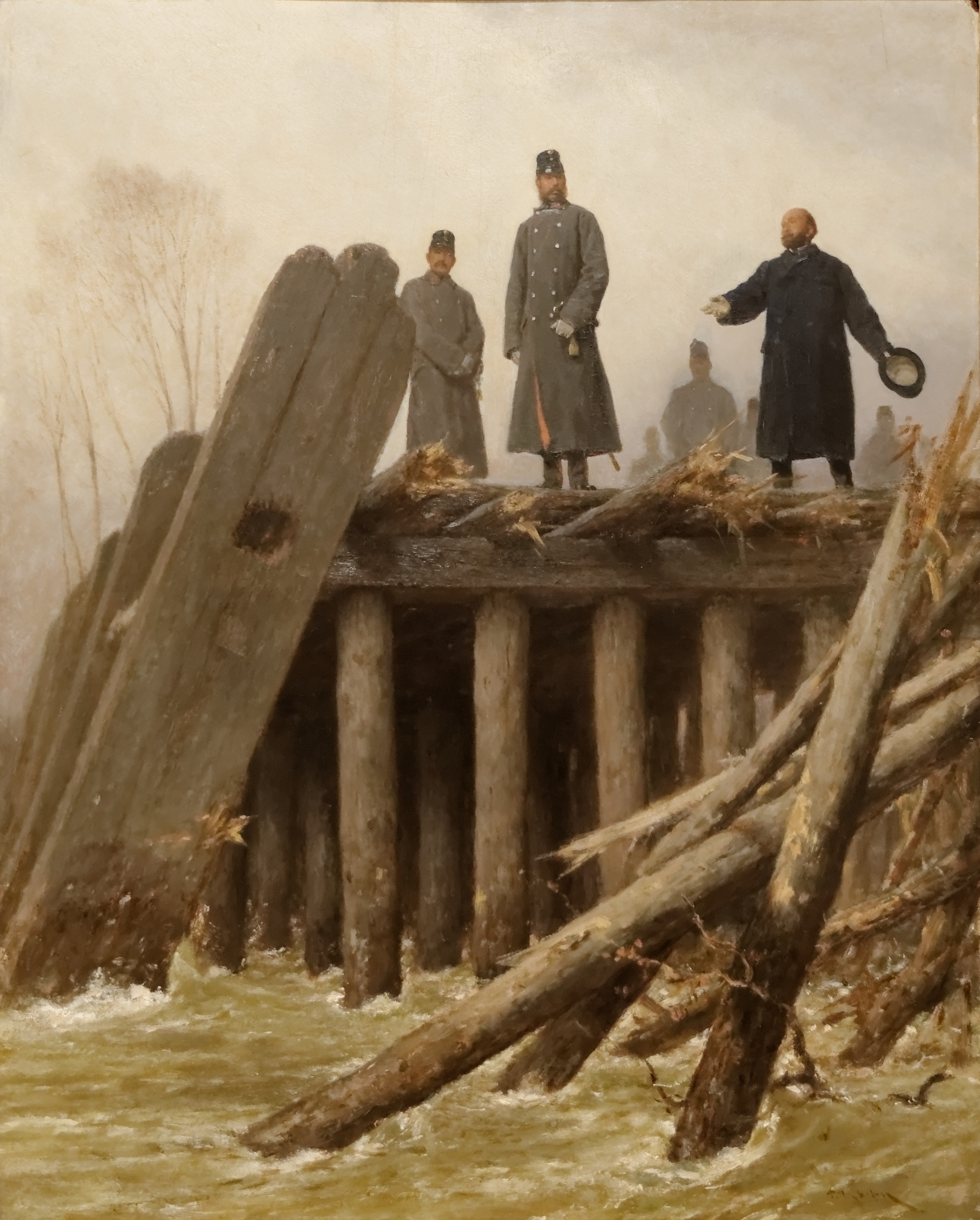 Floods of February 1862. August von Panttenkofen (1822-1889). Oil on panel. History museum of Vienna. Gift of Emperor Kaizer Franz Joseph.